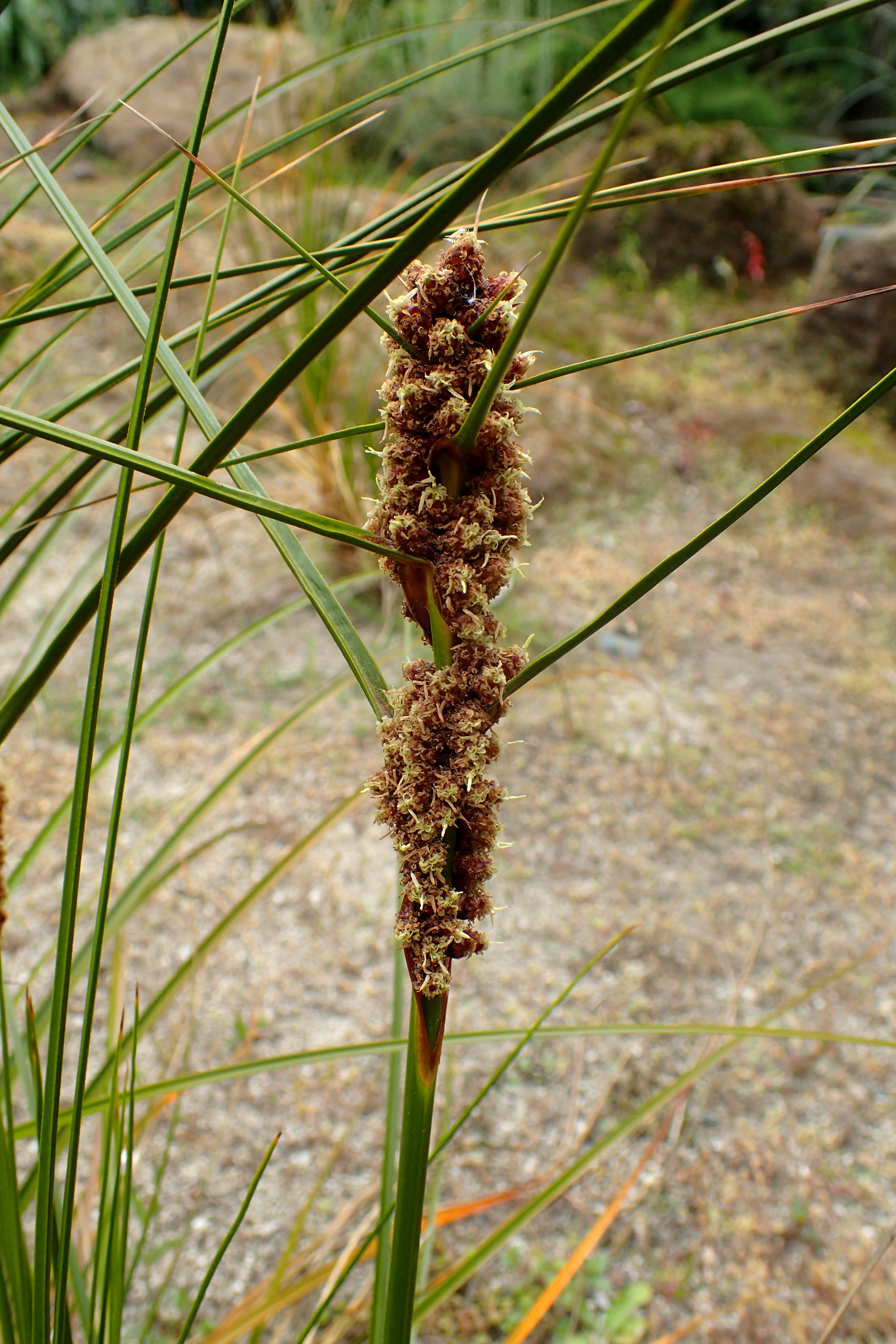 Ficinia spiralis in Auckland Botanic Gardens